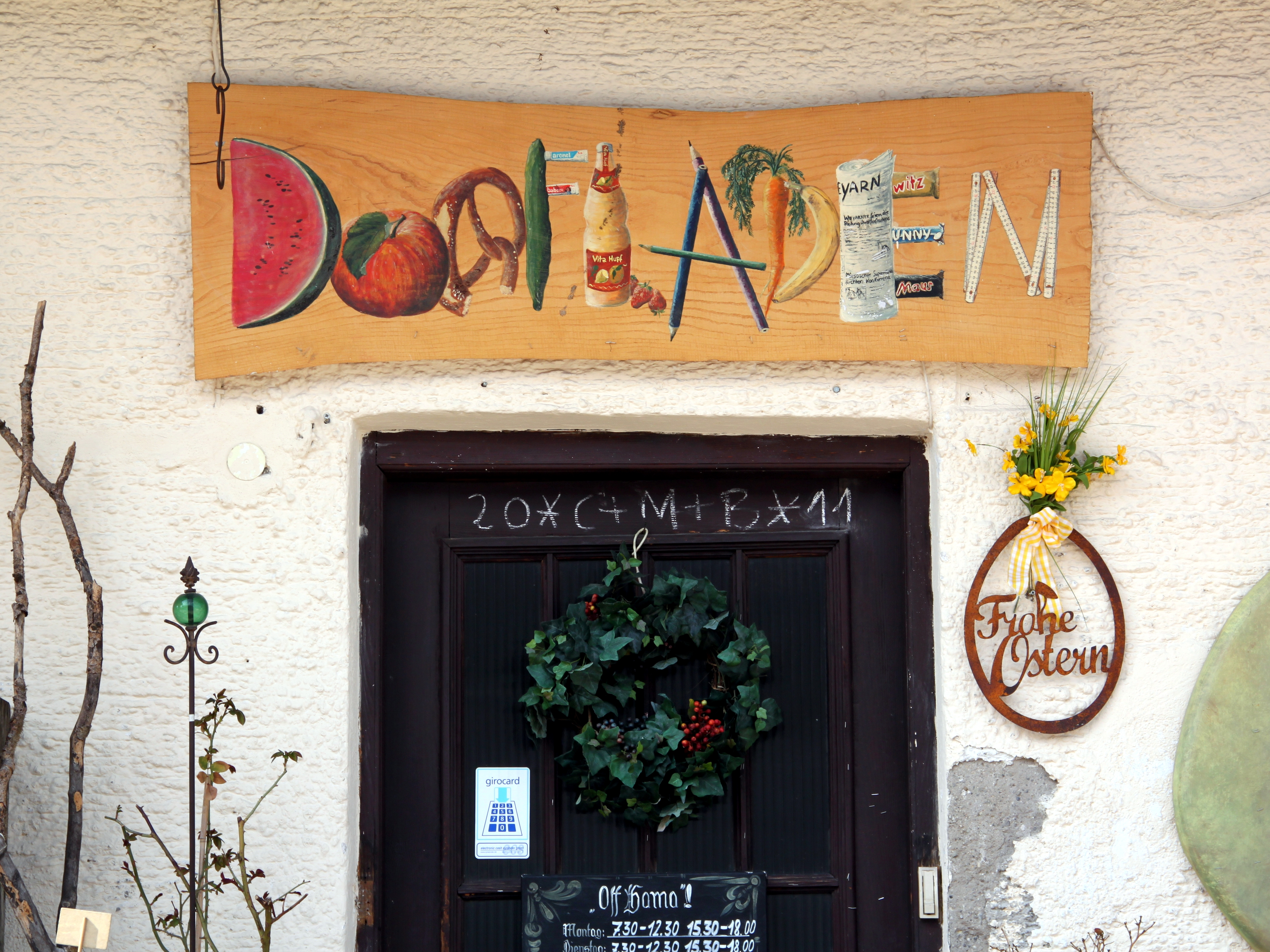 Logo of and entrance to the village shop